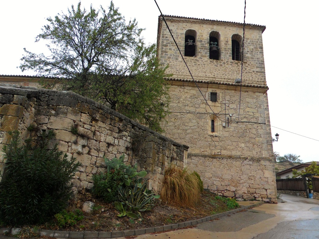 Purification of Mary's Church, in Valdepeñas de la Sierra, Guadalajara, Spain.